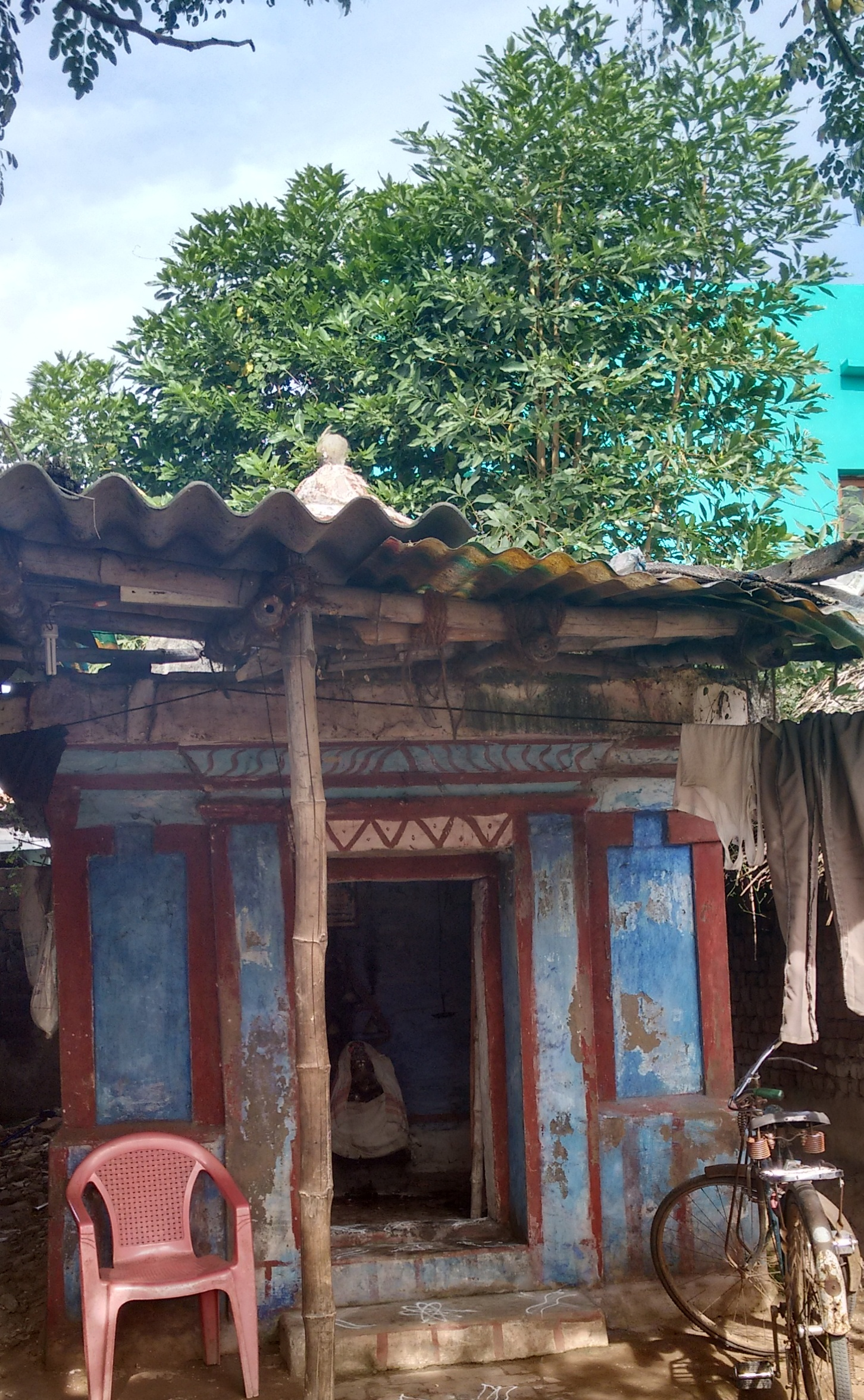 Pettai vinai theertha street visvanathasamy temple3 பேட்டைவினை தீர்த்த தெரு விசுவநாதசுவாமிகோயில்3